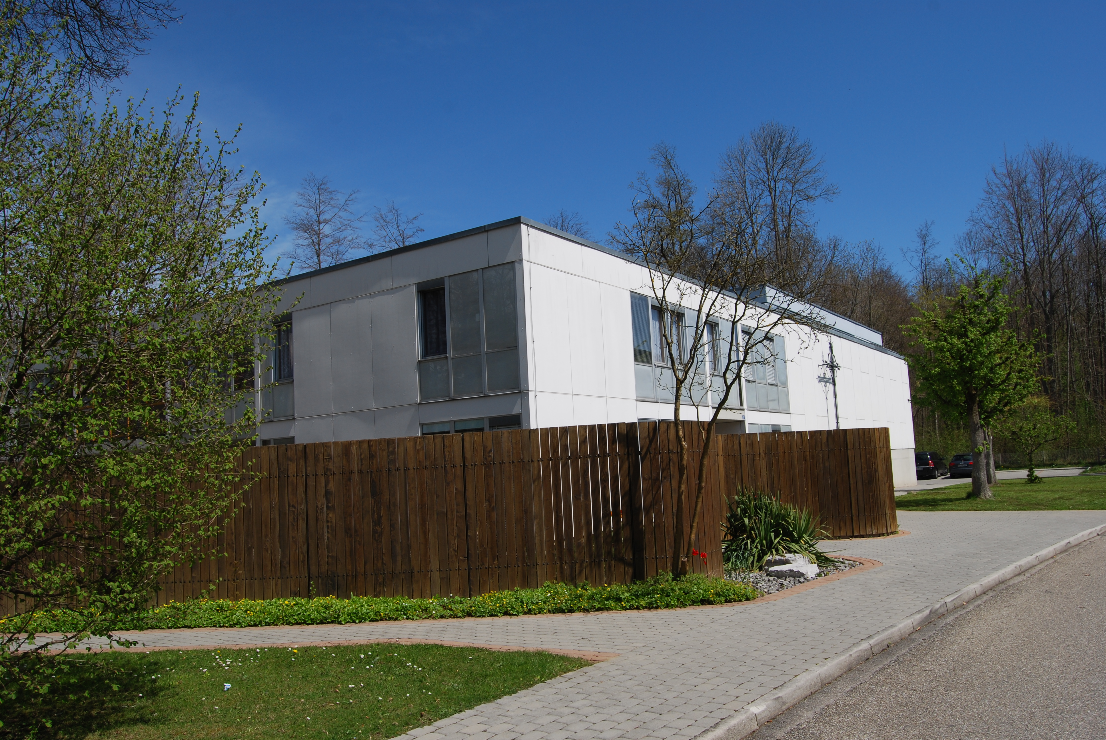 Catholic Church of Flamatt, canton of Fribourg, Switzerland